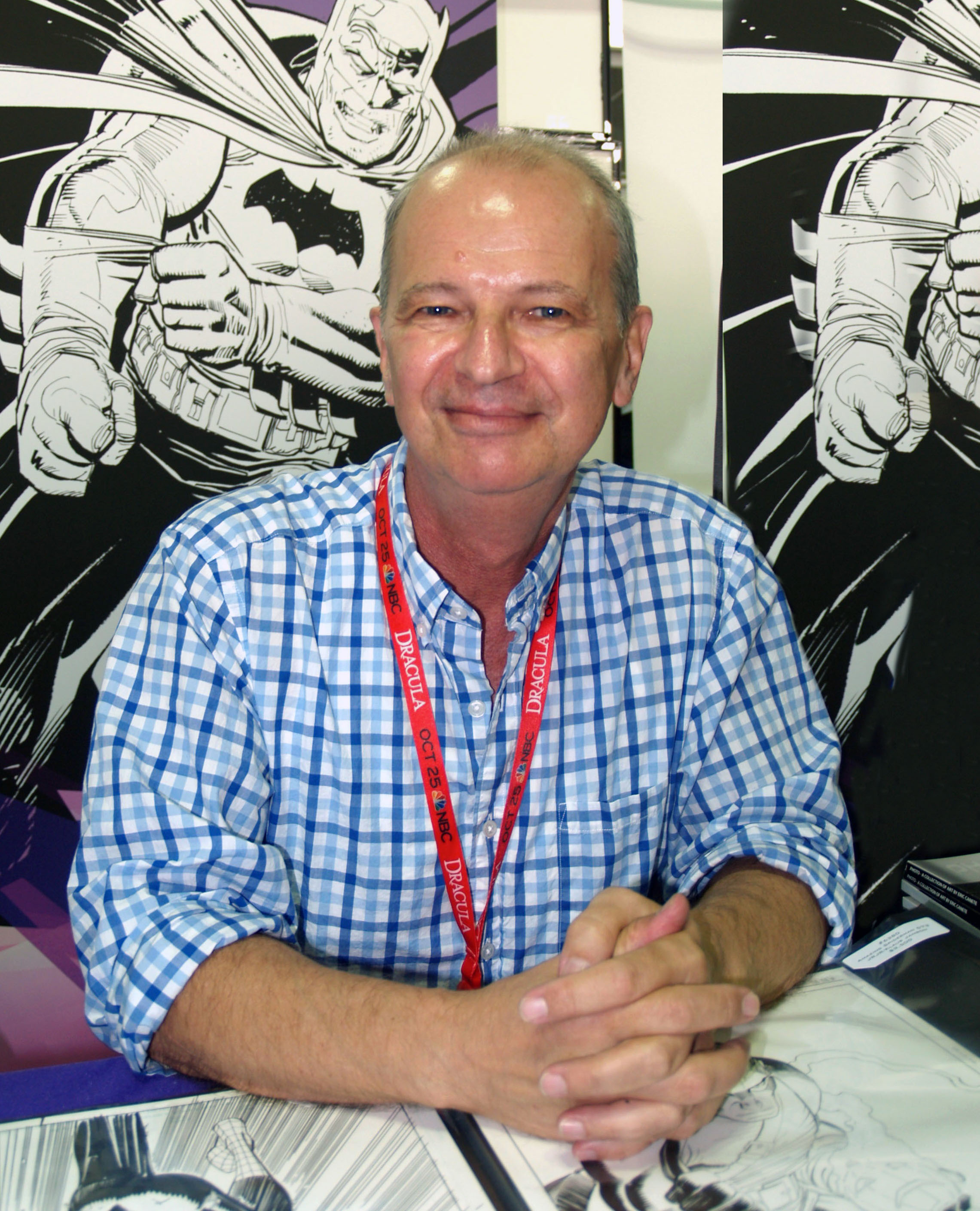 Comics artist Klaus Janson on Saturday, October 12, 2013 at the Jacob K. Javits Convention Center in Manhattan, Day 3 of the 2013 New York Comic Con. This photo was created by Luigi Novi. It is not in the public domain, and use of this file outside of the licensing terms is a copyright violation.